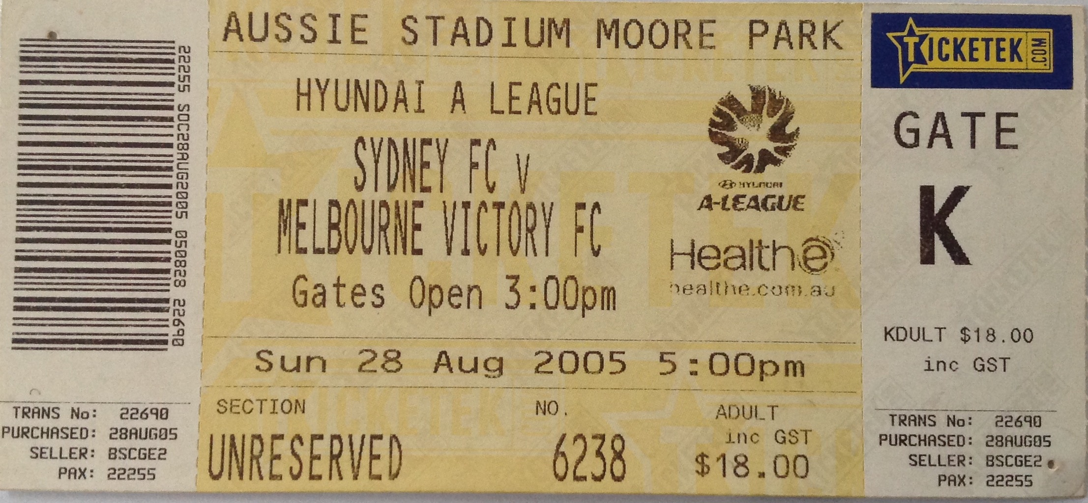 Sydney FC v Melbourne Victory FC ticket for 28 August 2005, the inaugural A-League match of the two clubs, which I actually attended.